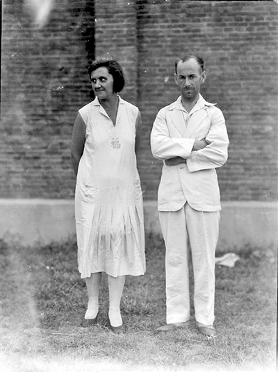 Jakob Rudnik and his wife